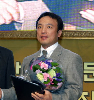 T.J. Kim (the CEO of NC Soft) in December 2007